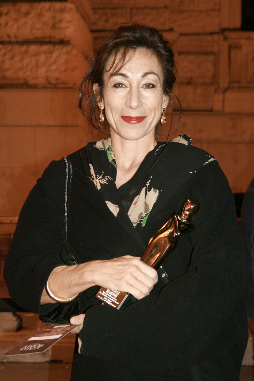 Andrea Eckert at the Romy TV awards (Hofburg Imperial Palace in Vienna)